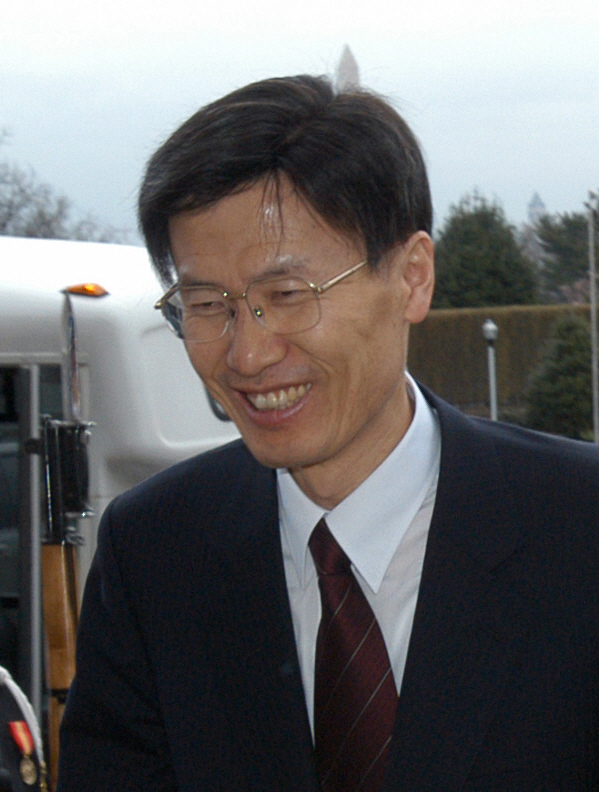 Republic of South Korean Minister of Foreign Affairs Young-Kwan Yoon (left), is escorted by U.S. Deputy Secretary of Defense Paul Wolfowitz, as he arrives for a visit at the Pentagon on March 29, 2003. OSD Package No. A07D-00539 (DOD Photo by Robert D. Ward) (Released)